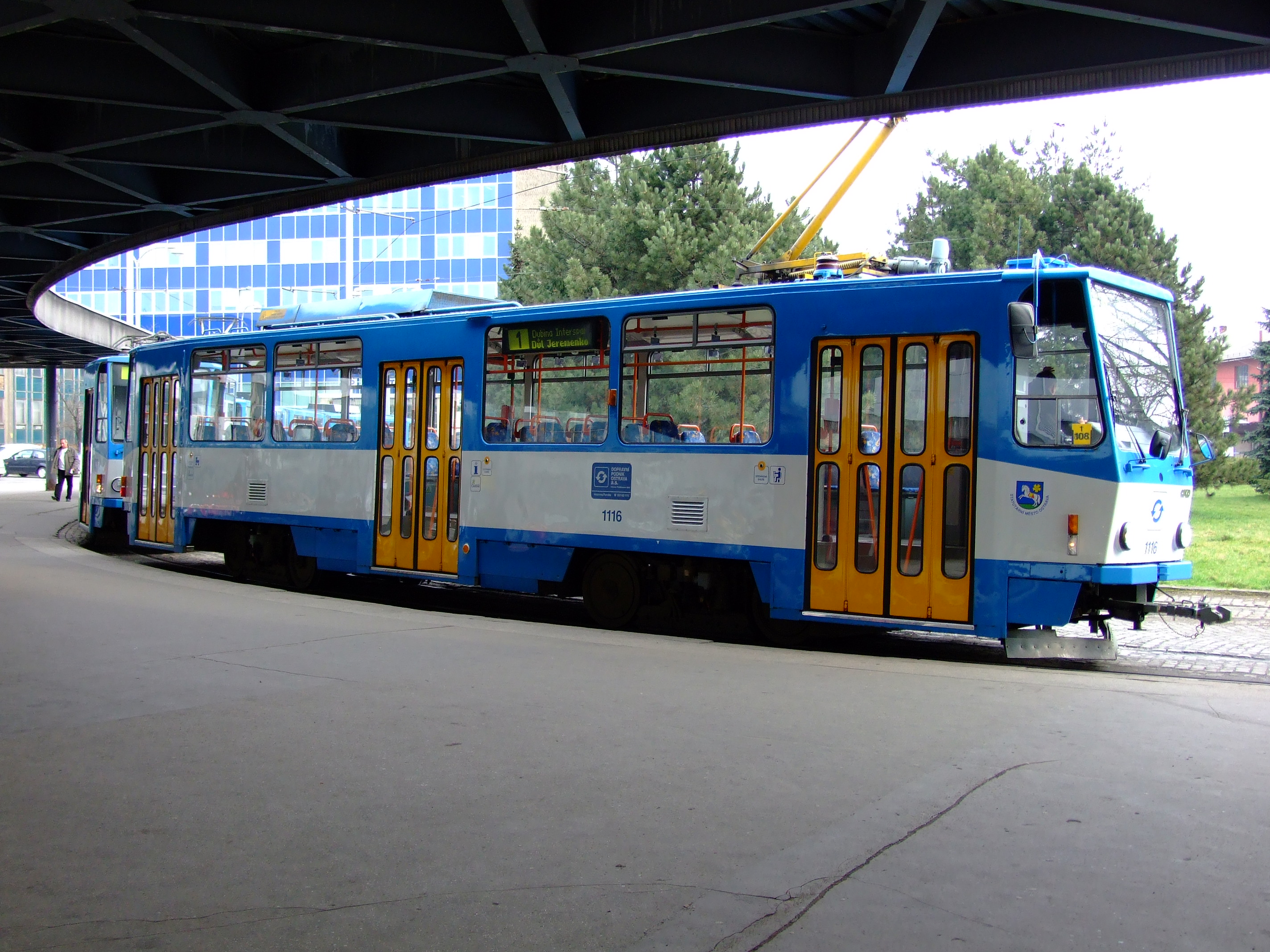 Tram in Ostrava at main rail station terminus, CZ